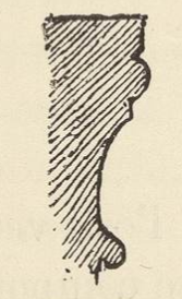 The column capital of Sarayönü Mosque, Nicosia, as drawn by Camille Enlart in 1899 (the previous Gothic mosque before it was demolished).